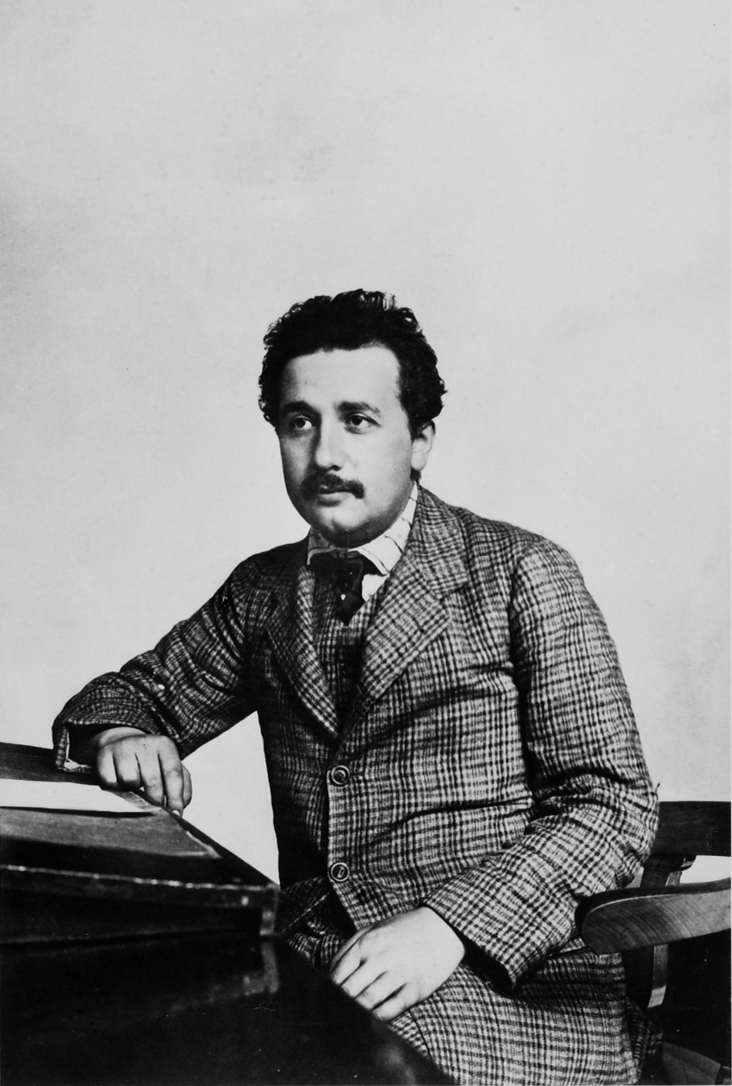 German-born theoretical physicist Albert Einstein